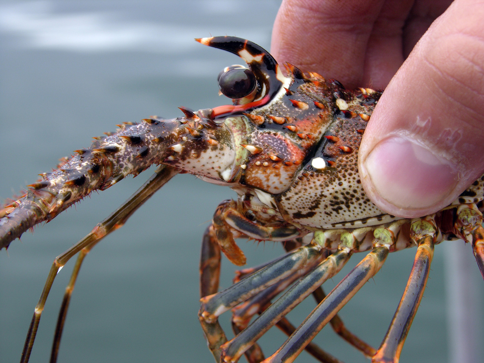 Muitas lagostas